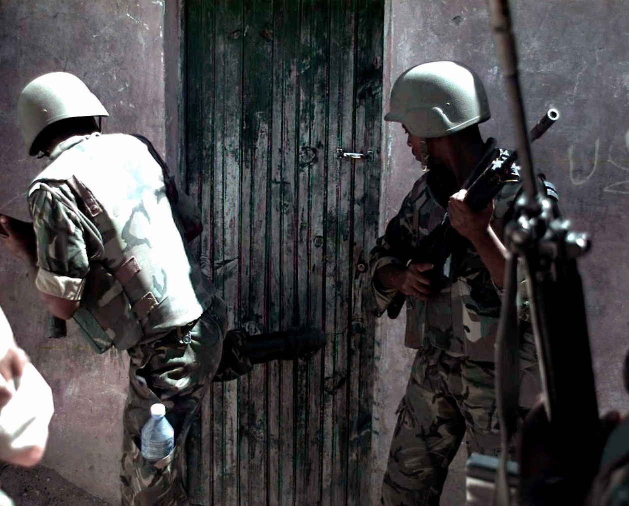 Two members of the Botswana Defense Force stand near a door to a building. The soldier at left kicks at the door with his right leg. The door is part of a building in the Bakaara Market in Mogadishu, Somalia. The soldiers are looking for weapons during a raid on the market with US Marines (not shown). This mission was in direct support of Operation Restore Hope.